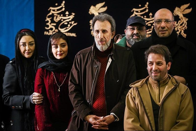 First day of 35th Fajr International Film Festival